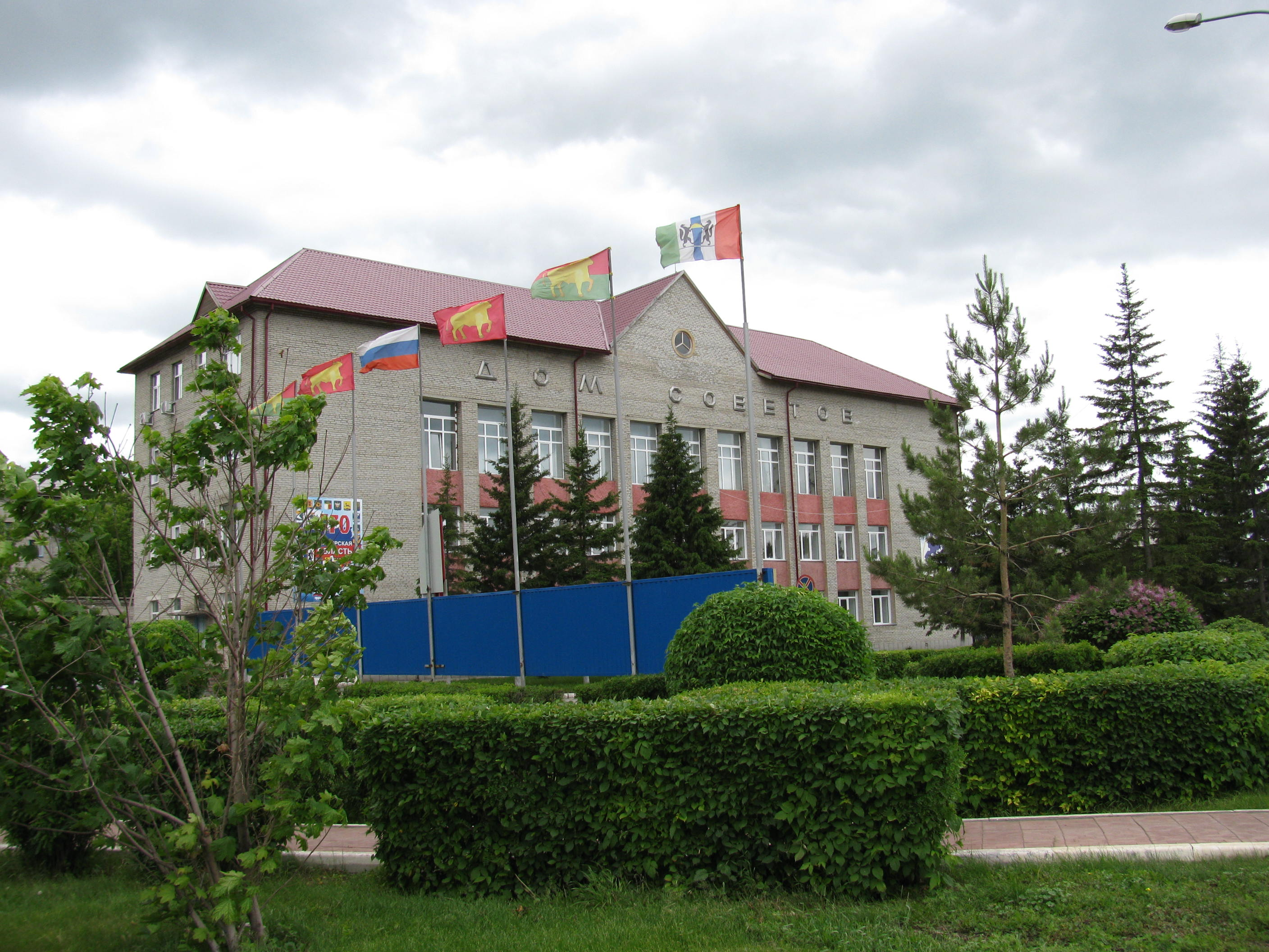 Administration building Kuybyshev, Novosibirsk Oblast.